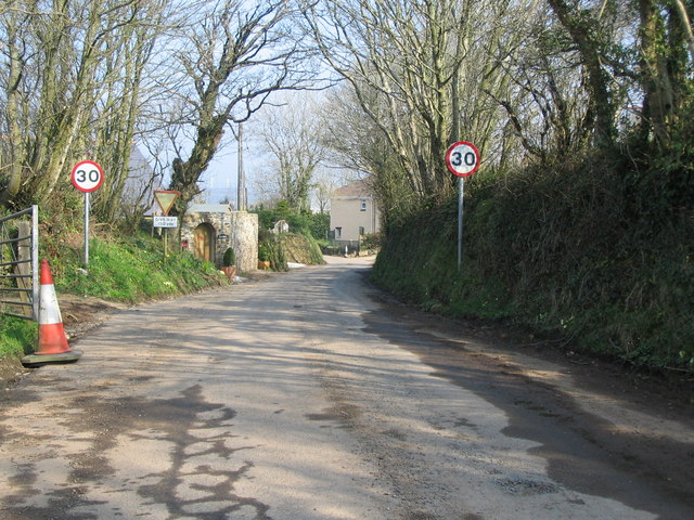 Helstone, a hamlet near Camelford in Cornwall, UK. Not to be confused with Helston.